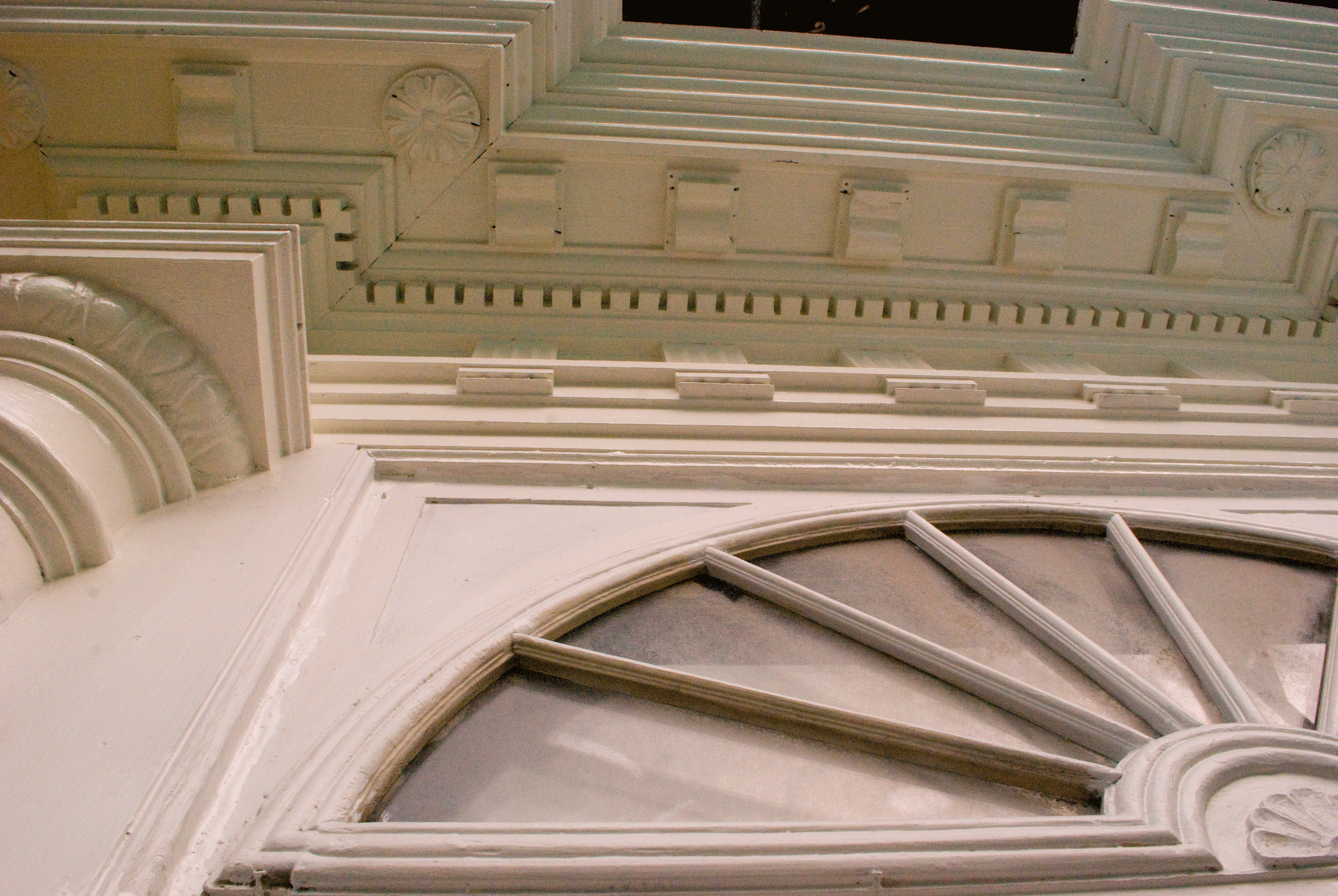 Detail of a neo-classical doorway in Tromsø, Norway